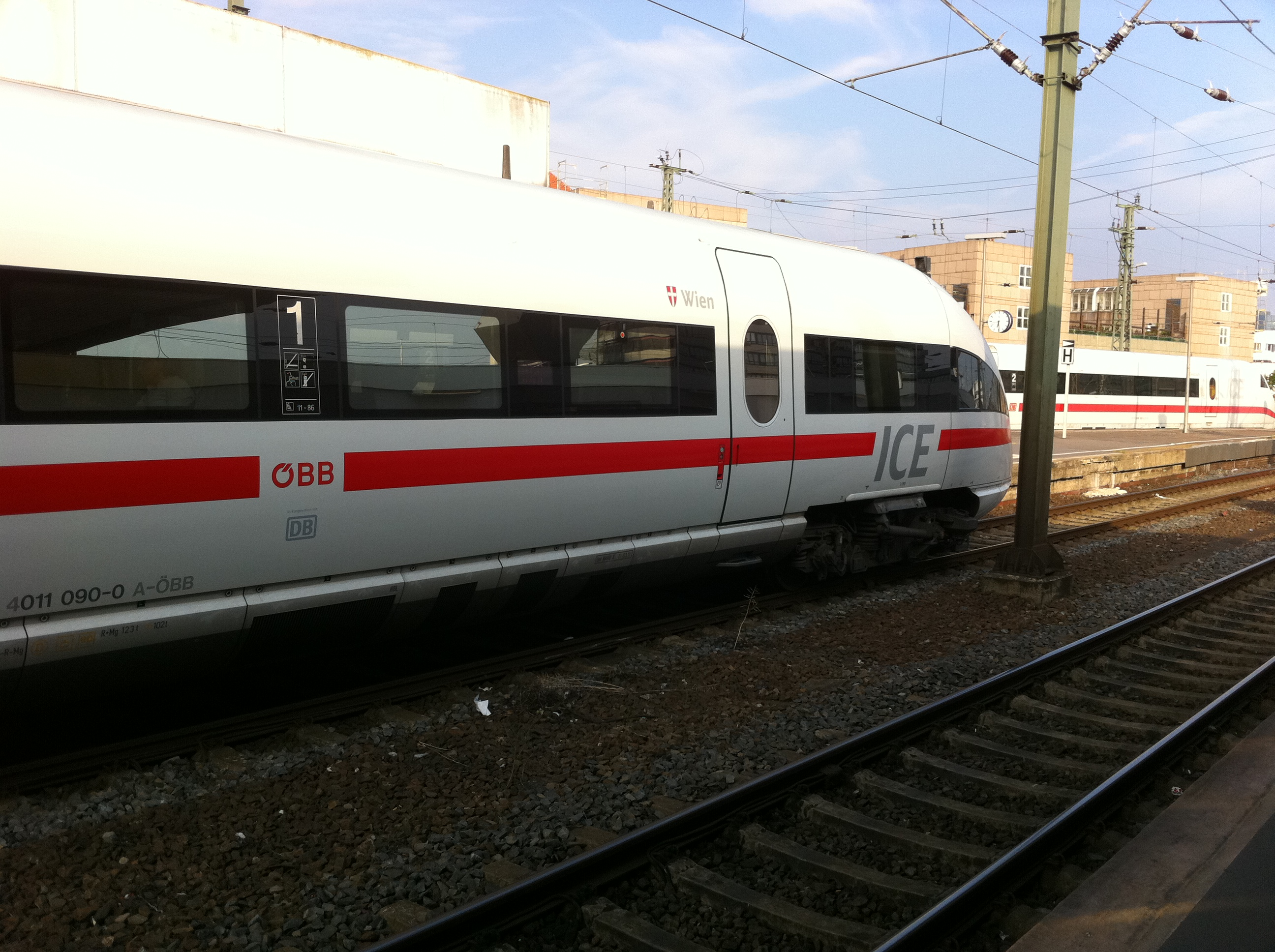 ICE T of Austrian Railways "Wien" with Logo "ÖBB" and Footer "in Kooperation mit DB" (Deutsche Bahn)